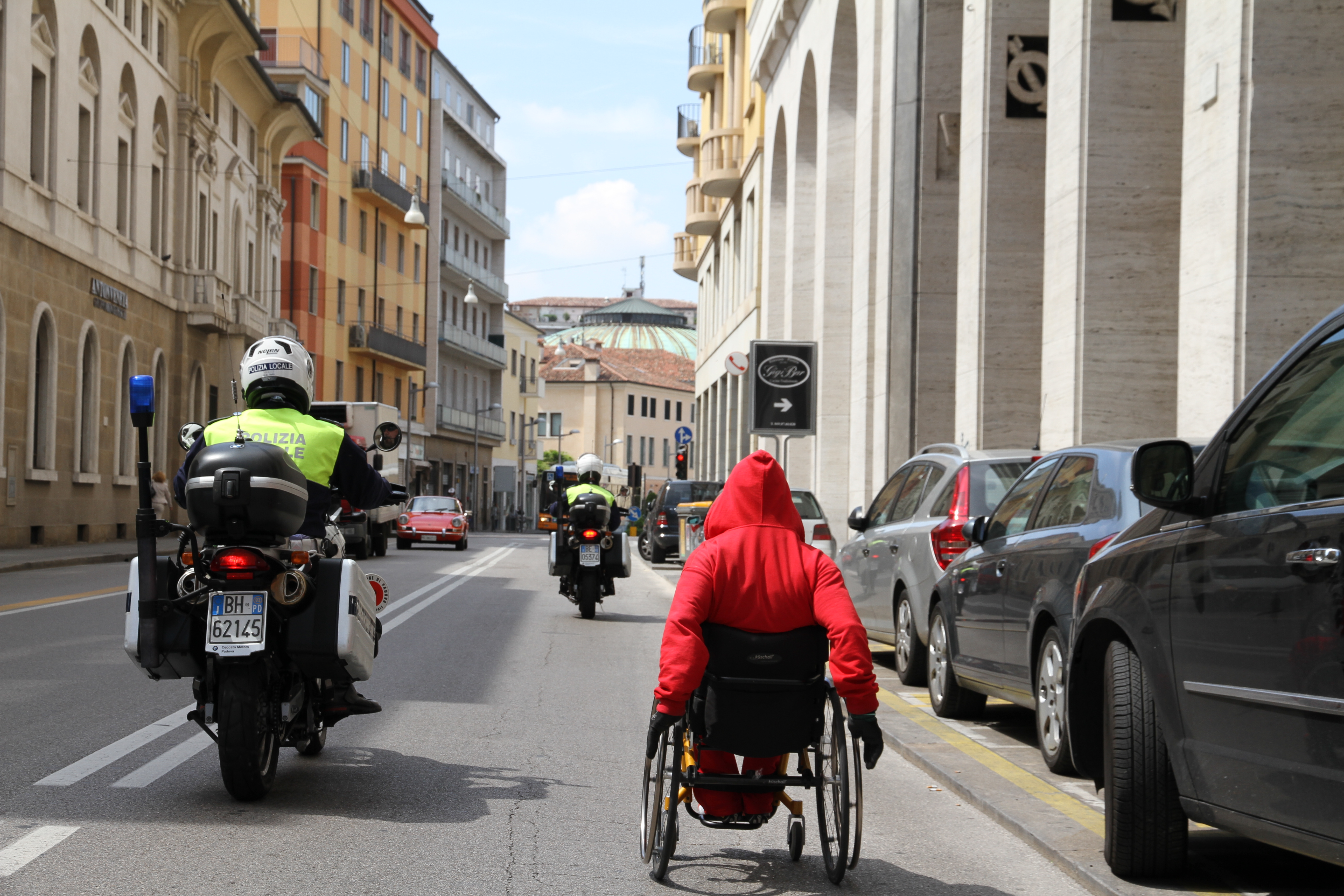 Mile Stojkoski passing through Vicenza, Italy during his ultramarathon towards 2012 London Olympic and Paralympic Games.